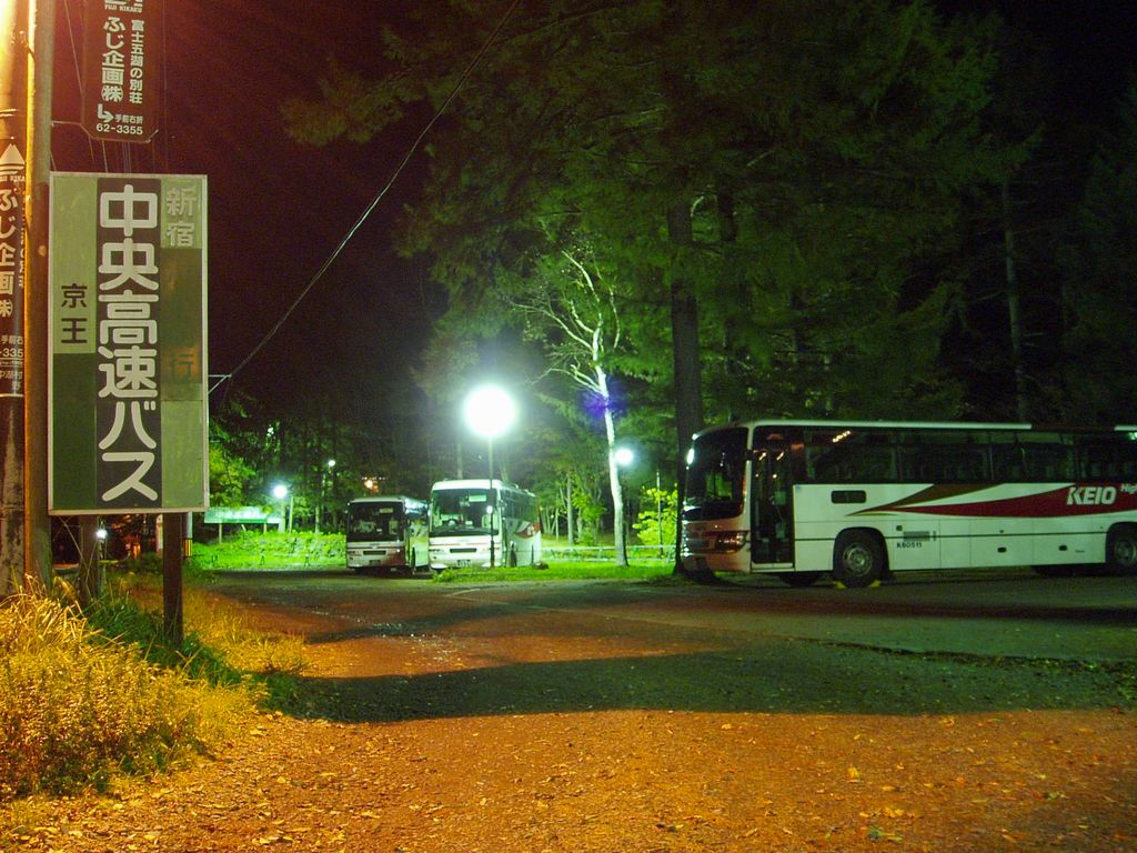 Keio Yamanakako Parking